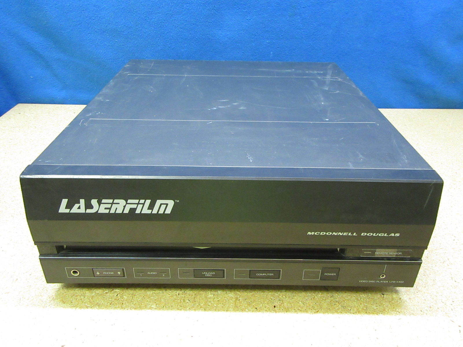 This is the videodisc are developed by McDonnel Douglas.